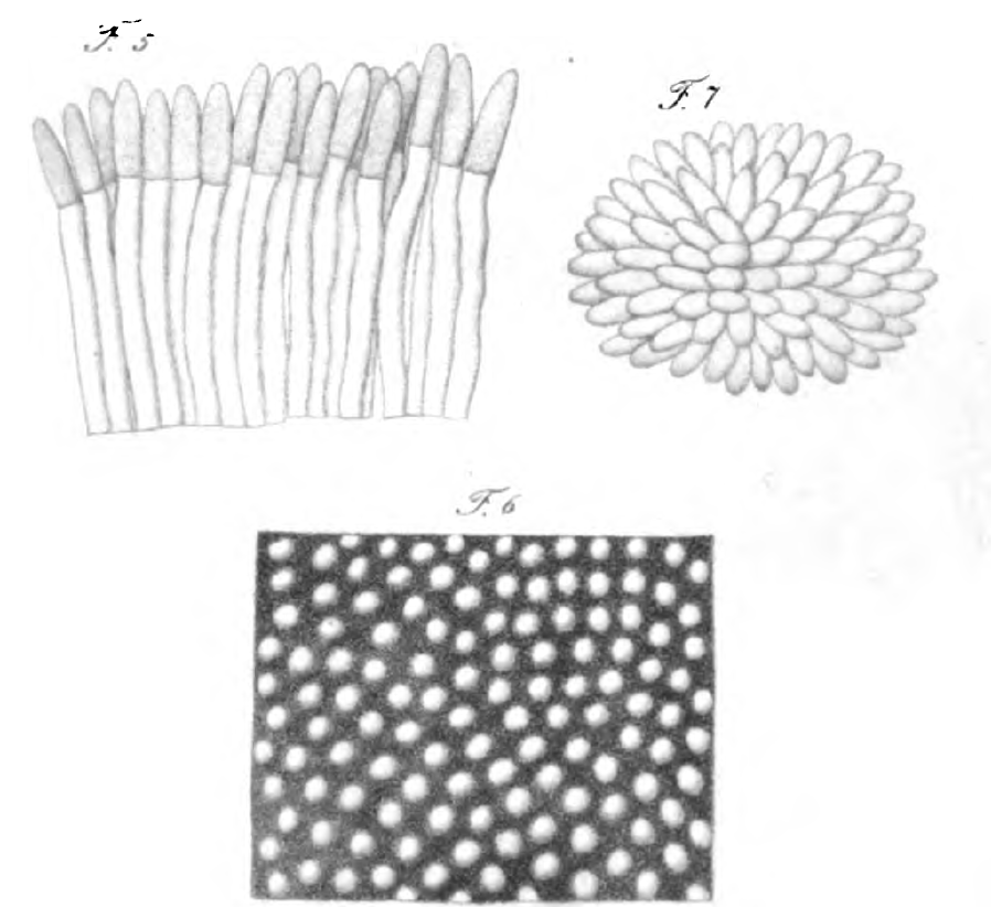 Drawings of photoreceptors by Gottfried Treviranus from his book Resultate neuer Untersuchungen über die Theorie des Sehens und über den innern Bau der Netzhaut des Auges, 1837